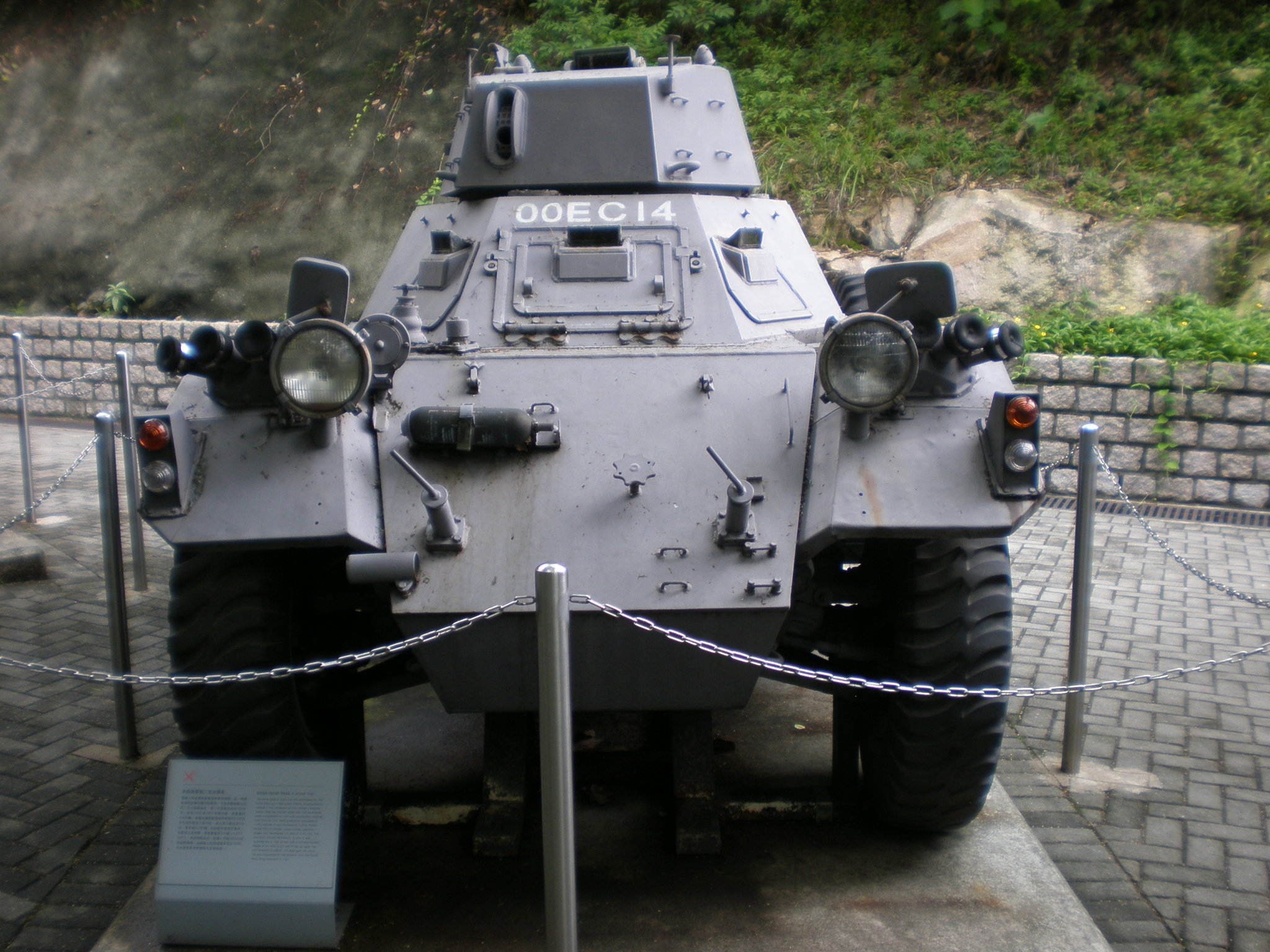 A Ferret Mk 2 Scout Car originally belonging to the Royal Hong Kong Regiment. On display at the Hong Kong Museum of Coastal Defence.